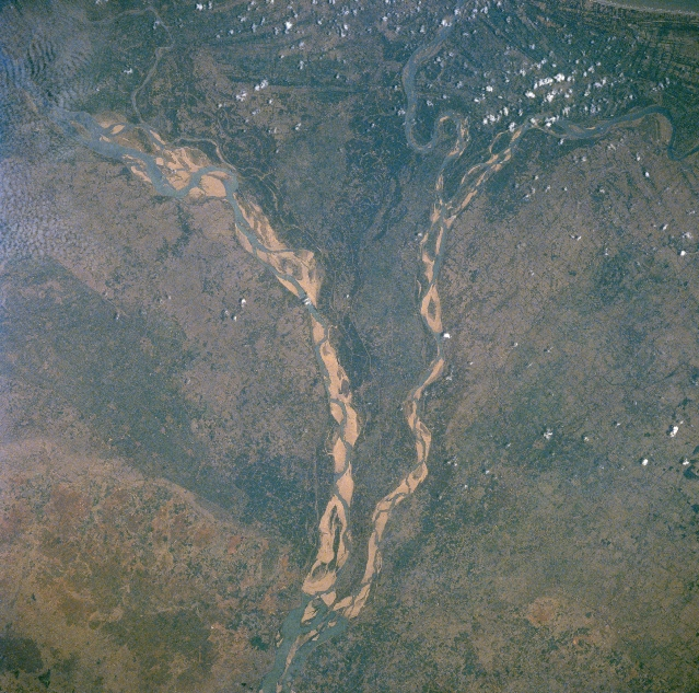 Godavari River Delta, India. NASA image.